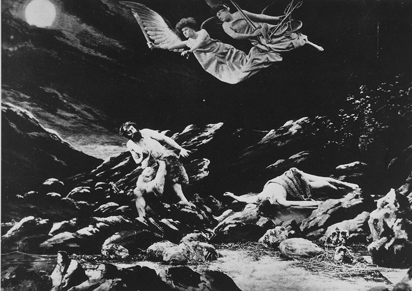 Promotional still of the lost film La Civilisation à travers les âges by George Melies.